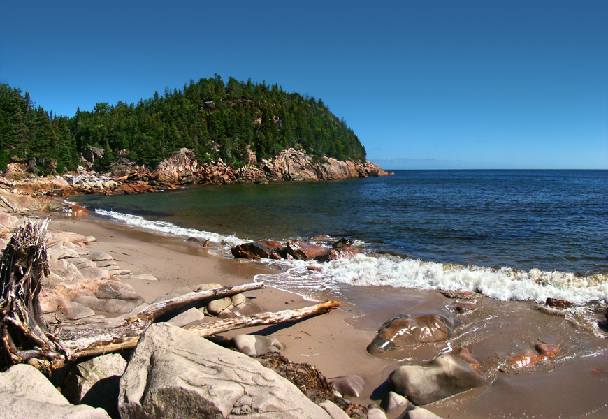 Cape Breton Highlands National Park, Cape Breton Island, Nova Scotia, Canada. Black Brook Beach.